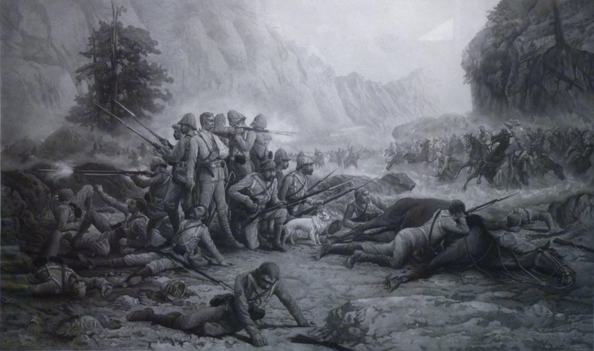 "The Last Eleven at Mailand"